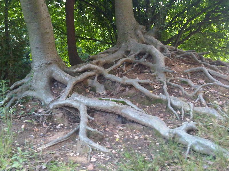 European Beech or Common Beech (Fagus sylvatica) roots in Putney Heath Common, England.